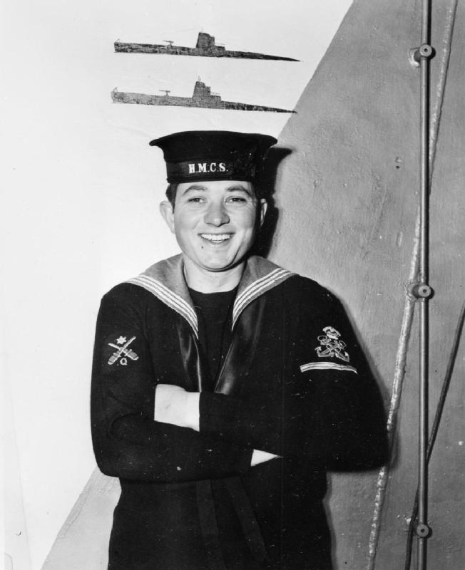 Canadian Frigate Hmcs Swansea Gets Another U-boat. 1944, Hmcs Swansea Accounted For Her Second U-boat. a Number of Survivors Were Rescued. Petty Officer G Ardy, of London, Ontario, standing by the gun-shield on which are painted symbols indicating SWANSEA's U-boat kills.